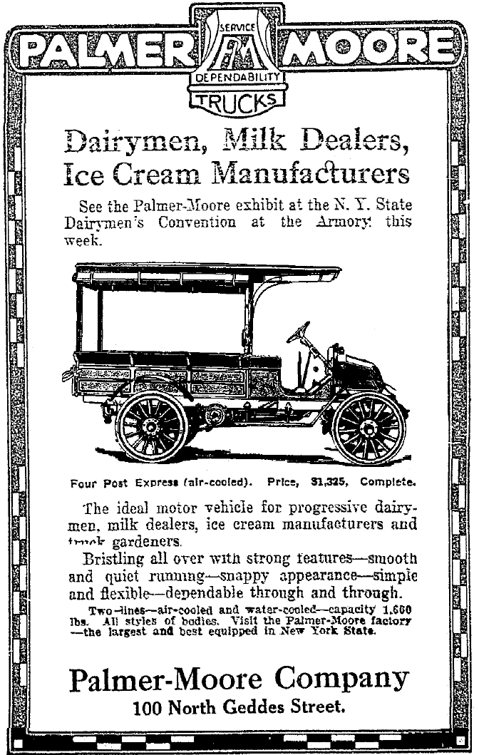 Palmer-Moore Company - 1913 "Dairymen, Milk Dealers and Ice Cream Manufacturers+